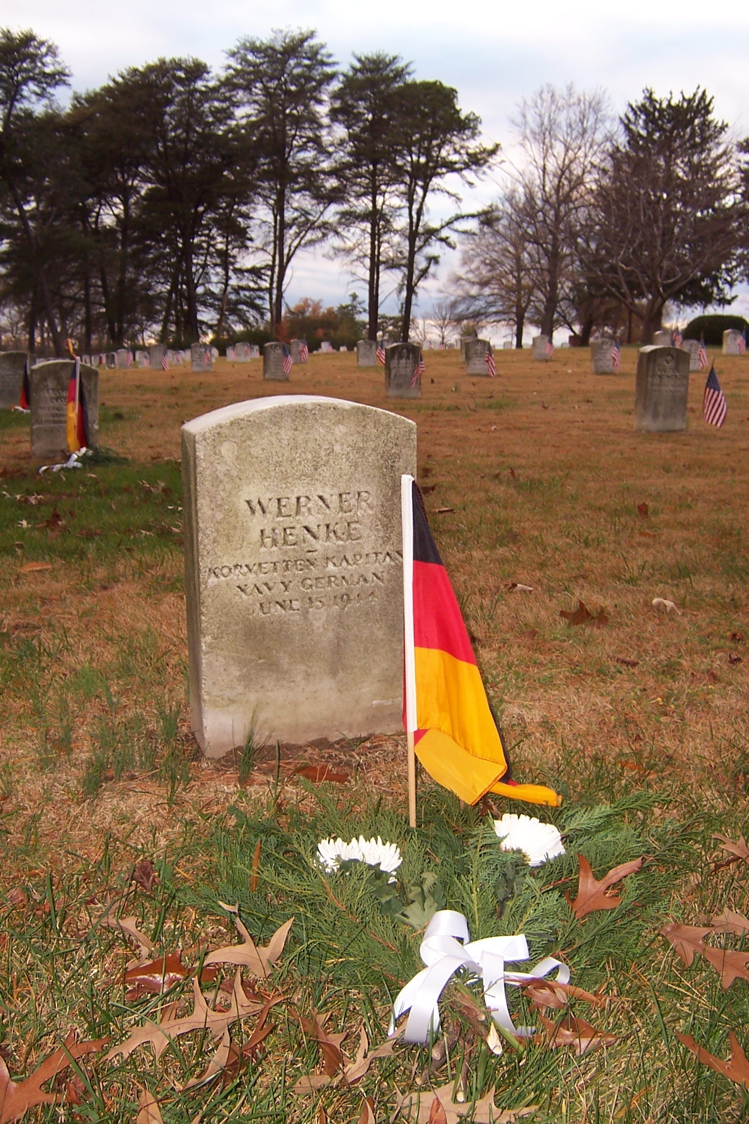 Grave of Korvettenkapitän Werner Henke, Werner Henke, Post Cemetery, Fort Meade, MD, decorated for Volkstrauertag (National Day of Mourning, i.e. German equivalent of Memorial Day), in November 2008